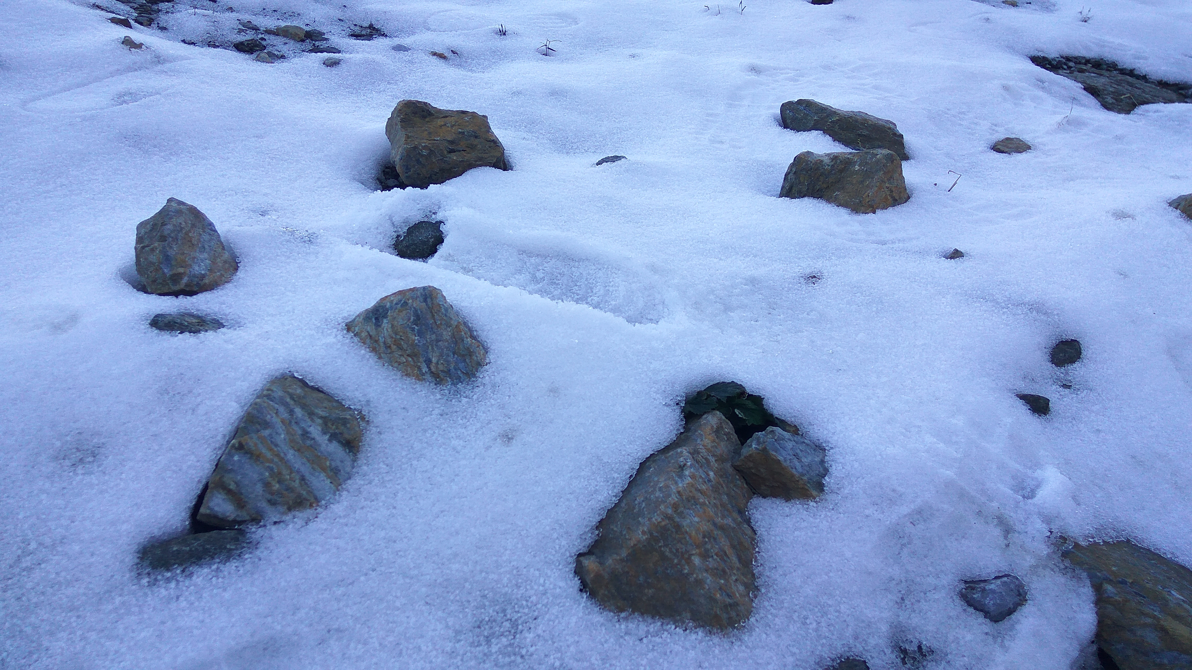 Mayodia Pass_3